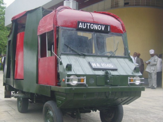 A jpged version of a computer-uploaded, digital camera image of "Autonov 1", the invention of Ayodele Awojobi, on display at the faculty of Engineering, university of Lagos.